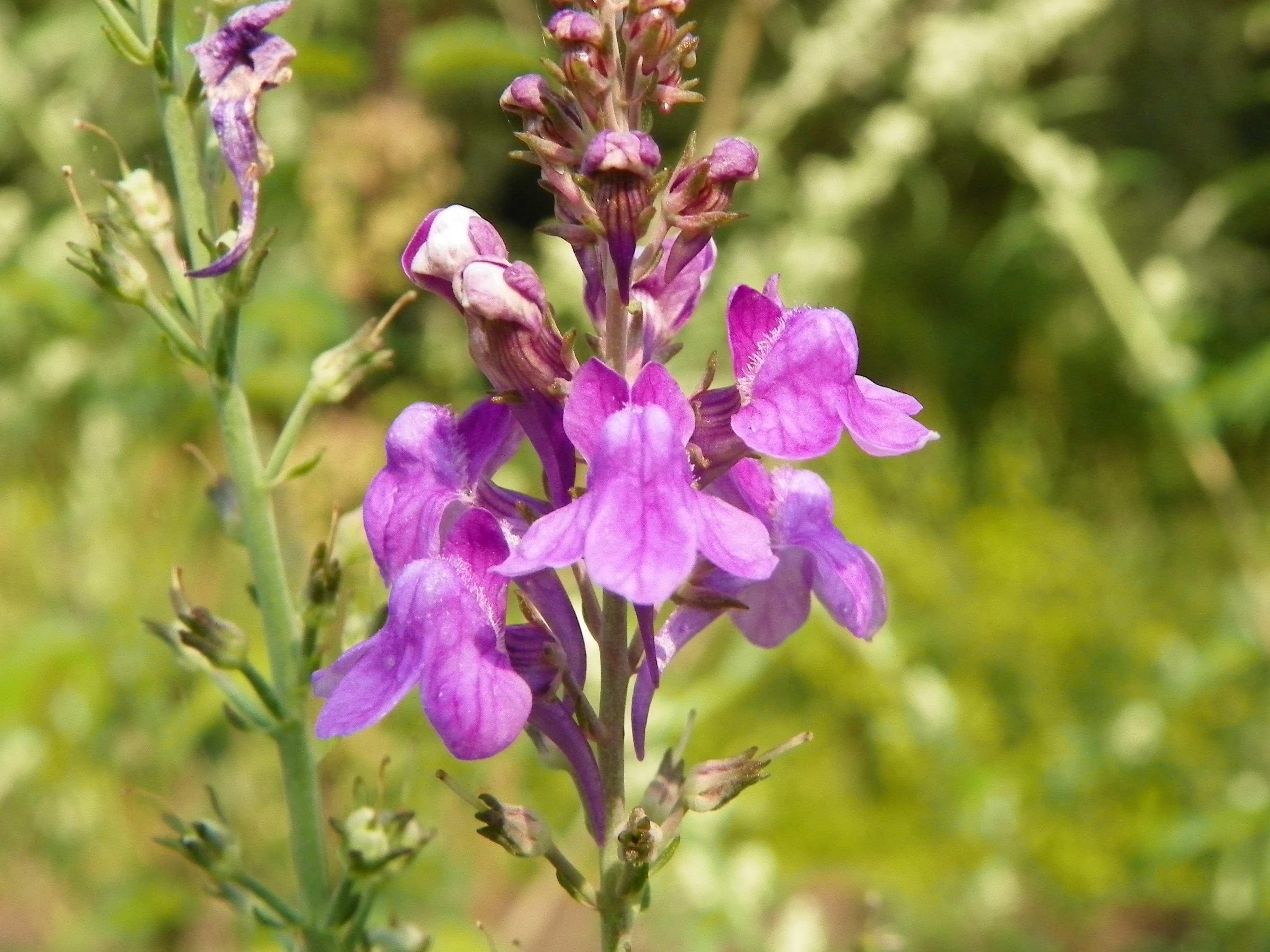 Purple Toadflax (Linaria purpurea), Fairlands Valley Park, Stevenage, 27 July 2012.